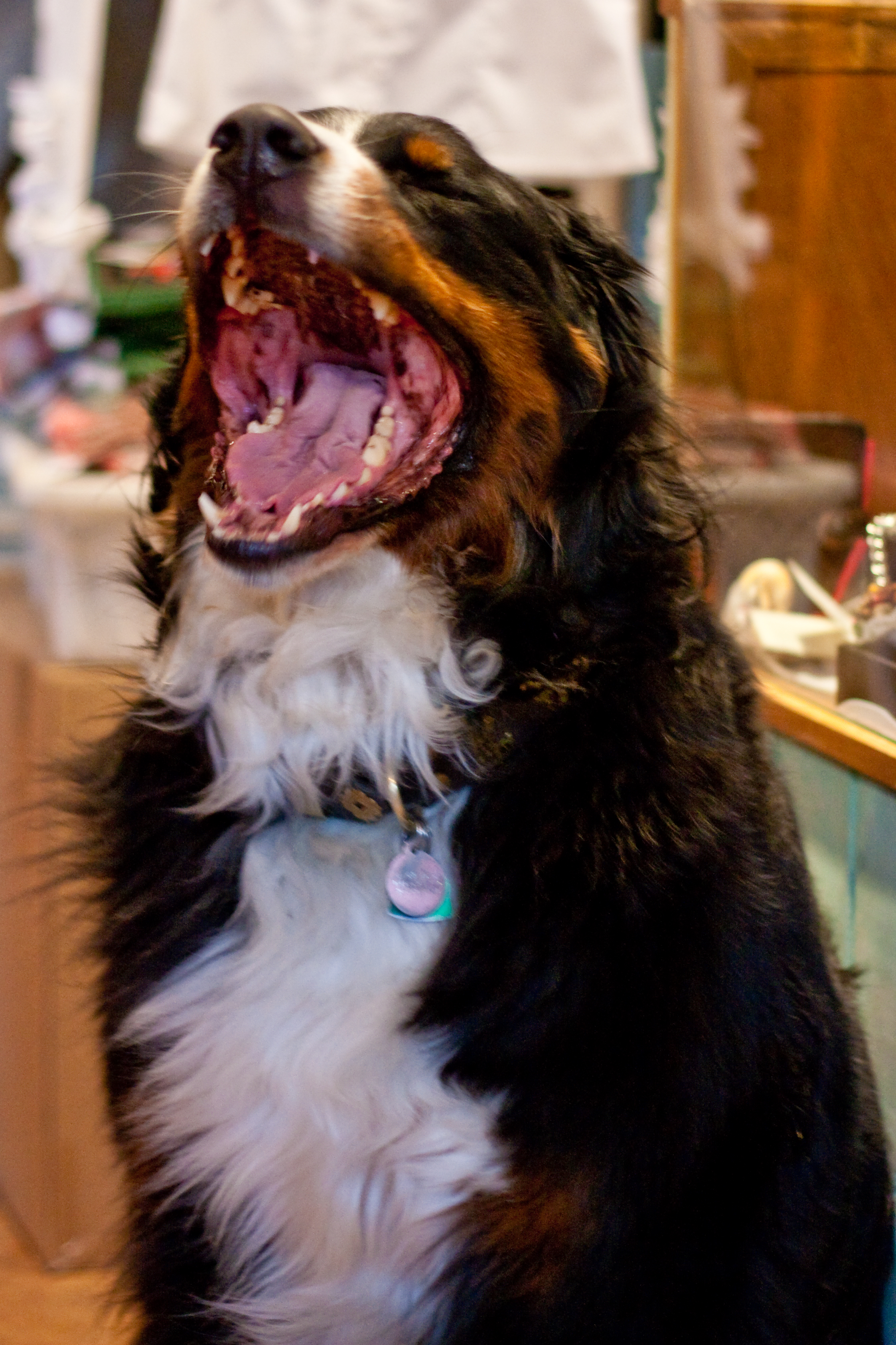 A Bernese Mountain Dog has a nice yawn. Photo taken by a customer of Alpen Schatz in Telluride, Colorado: Smokie Bear the Bernese Mountain Dog